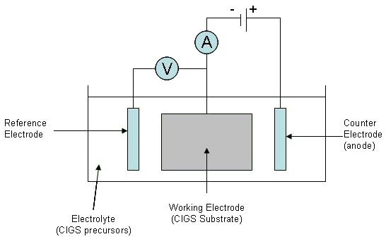 CIGS electroplating setup